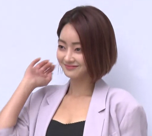 디스패치 구독 클릭! Dispatch Subscribe